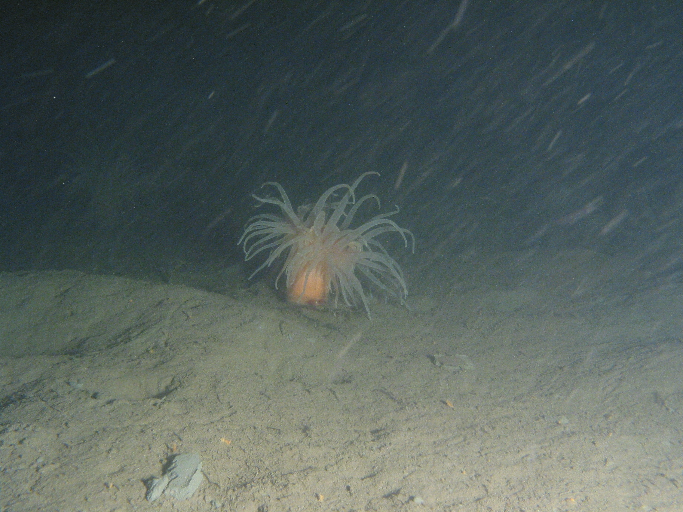 Photograph by: Marinegeology, SGU Date: 20070615 Place: Koster National Park, Sweden Postglacial gyttjelera med havsanemon (Urticina eques?) , 87 m djup